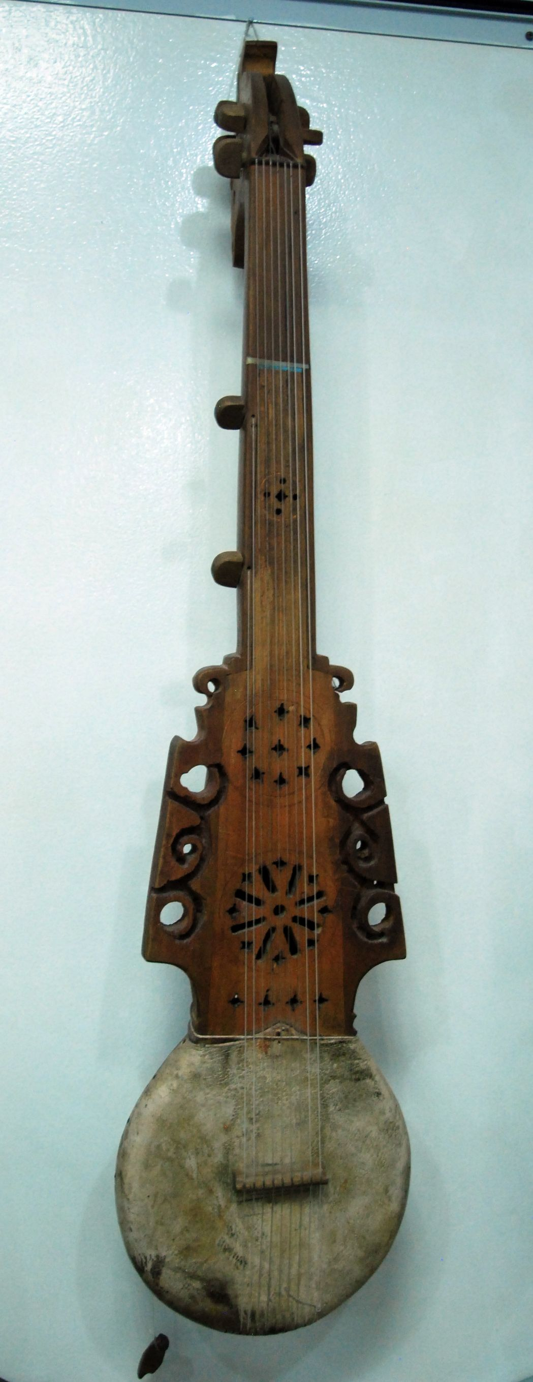 Rubab Pamiri from Khorugh, Badachshan, Tadshikistan. Ethnographic Museum, Dushanbe